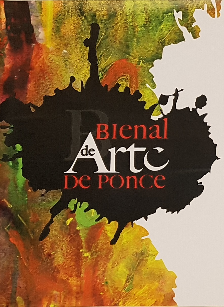 Bienal de Arte de Ponce, en Ponce, Puerto Rico (20181219 133820A)